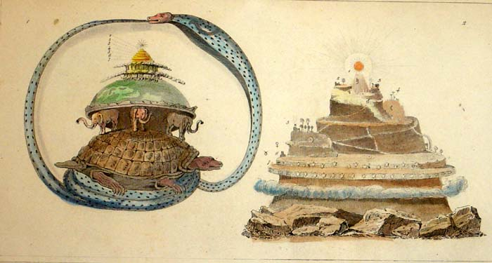 An attempt to depict the cosmology of the Puranas, and Mount Meru, provenance and exact date unknown; a steel engraving, 1850's, with modern hand coloring